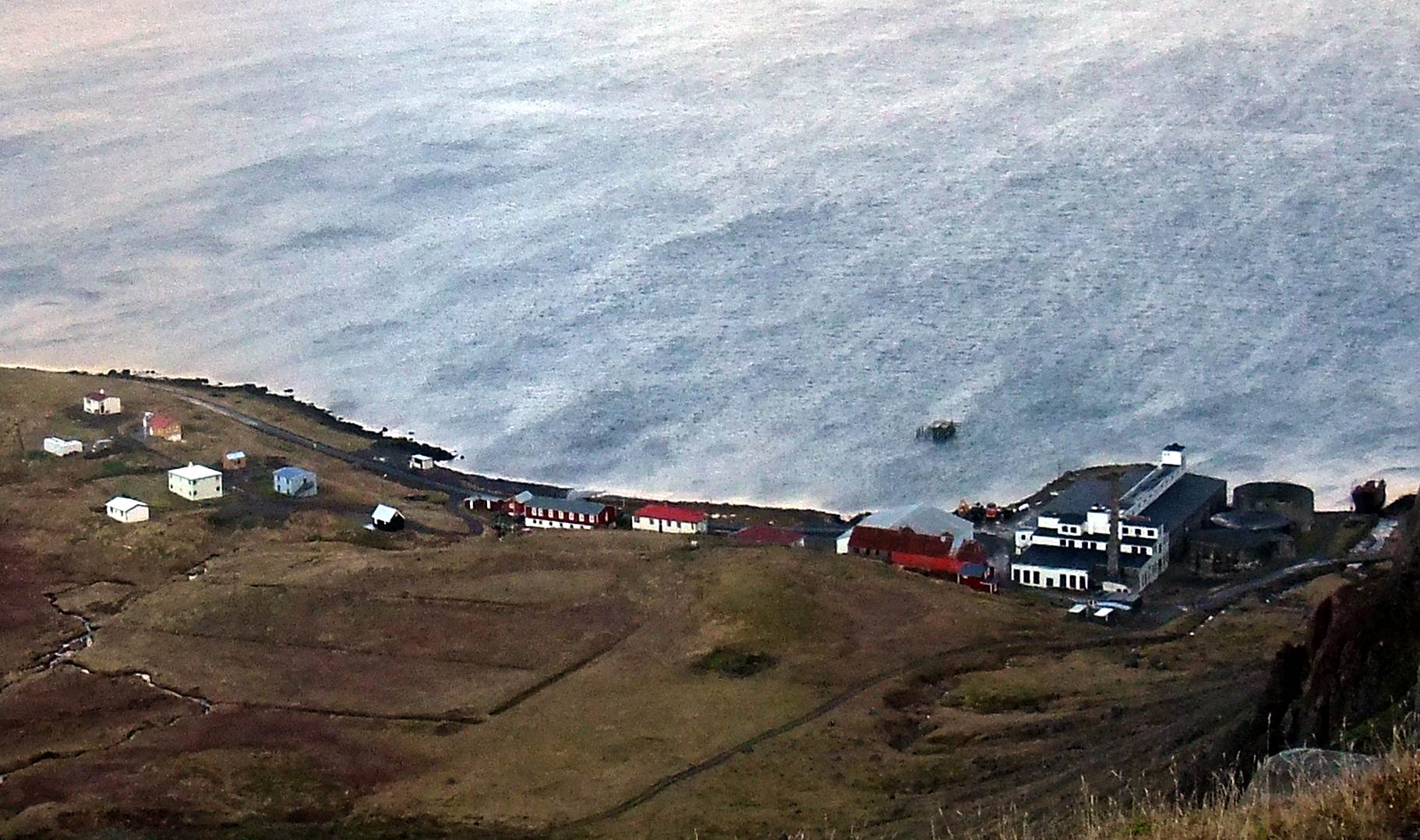 The village of Djúpavík was photographed from the top of the Djúpavíkurfoss (Djúpavík waterfall) on November 2, 2017 by Bruce Tanquist